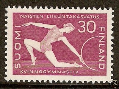 Finnish postage stamp of 1959 showing the gymnnast Elin Kallio.